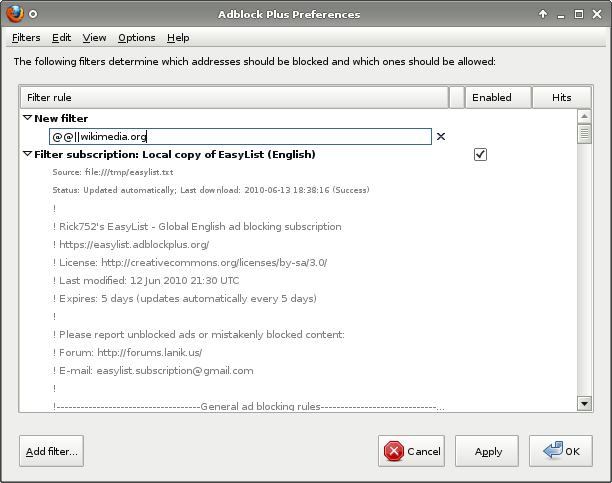 English Adblock Plus v1.2 in Mozilla Firefox 3.6.3: the Preferences window, adding a filter exception. Also visible is use of a local copy of a filter list from the EasyList (English) subscription. The window manager is Xfwm 4.